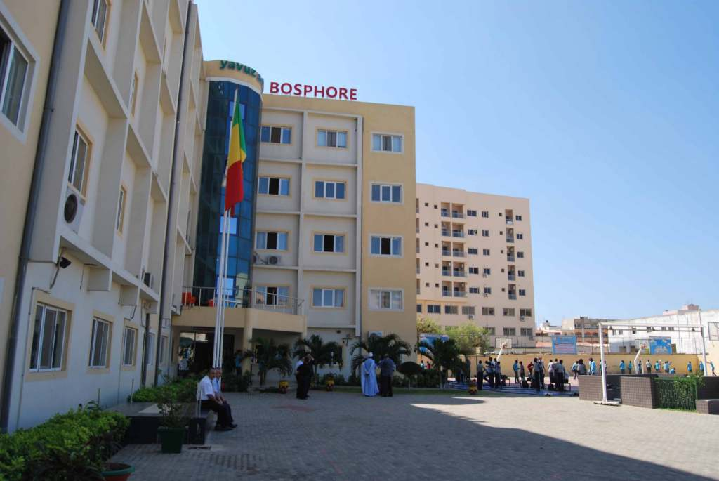 Yavuz Selim